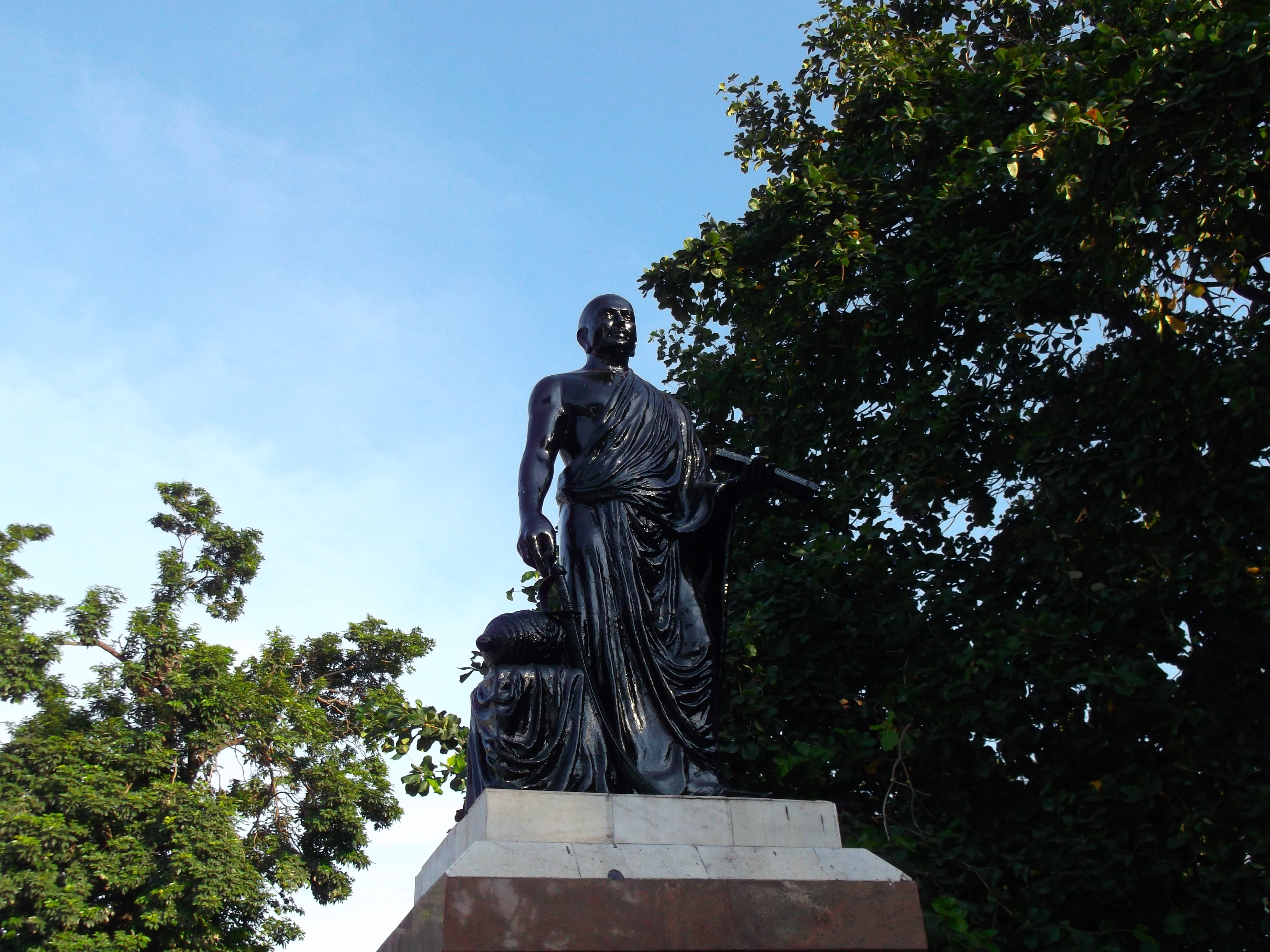 Marina Beach, Ilango Adigal statue, taken on 2-Feb-2013, afternoon